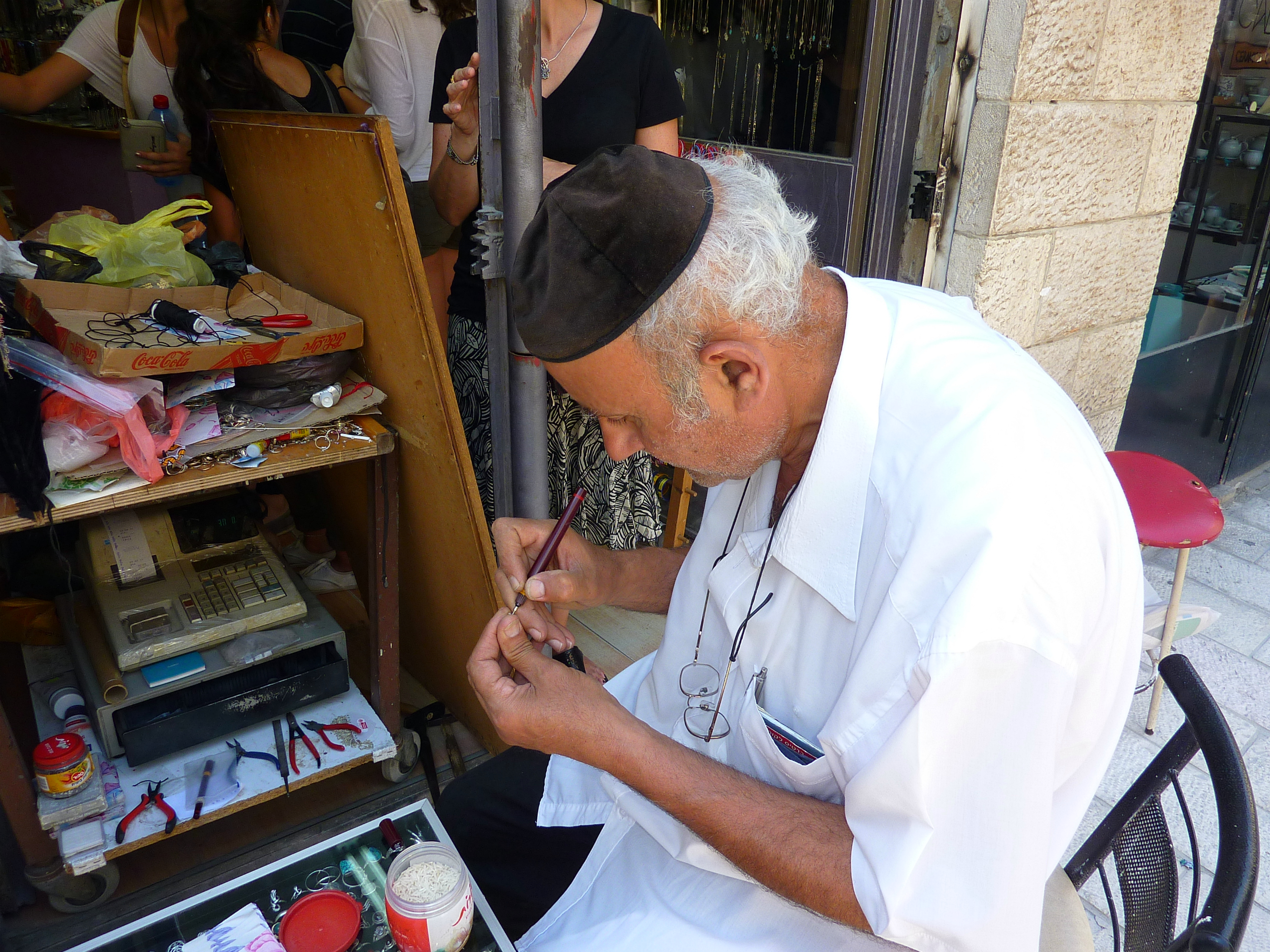 Jerusalem, Nahalat Shiv'a, 6 Yoel Moshe Salomon street, "Your name on a grain of rice" - goldsmith in Jerusalem, Economy of Israel